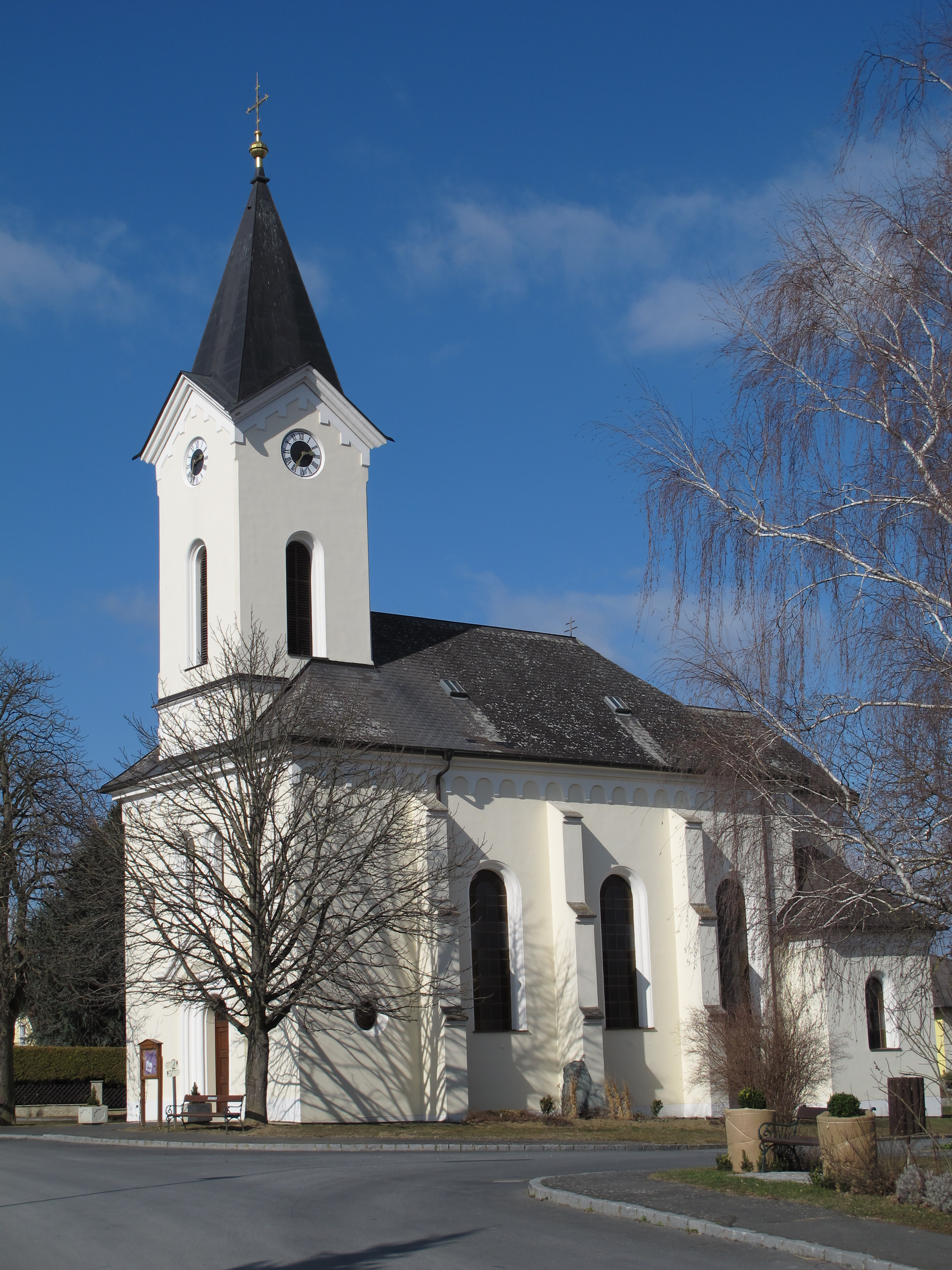 Church Urbersdorf